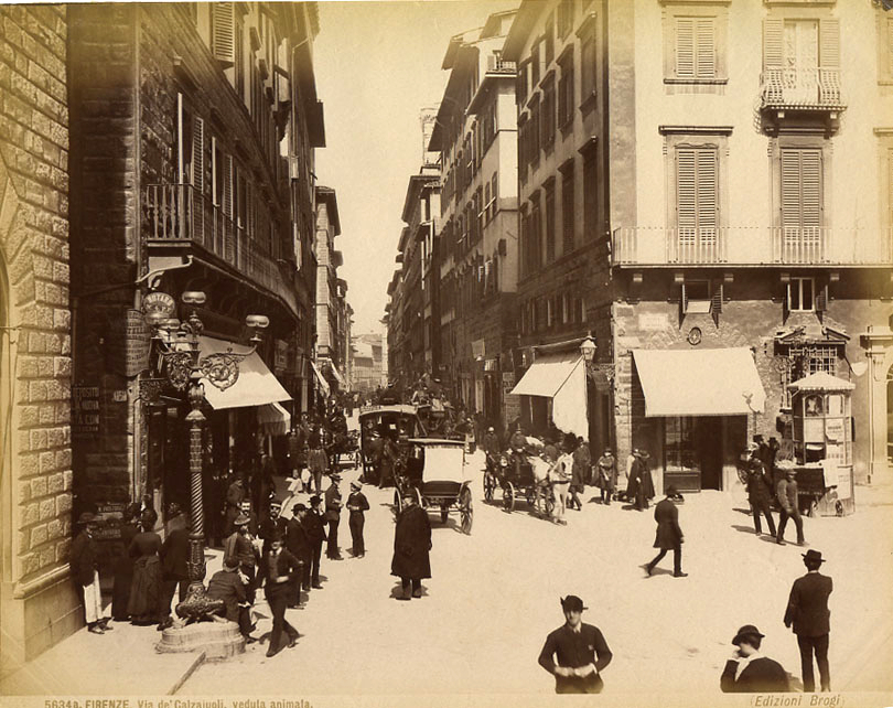 Giacomo Brogi (1822-1881) - "Florence - Via de' Calzaiuoli street - A crowded view". Catalogue # 5634a.